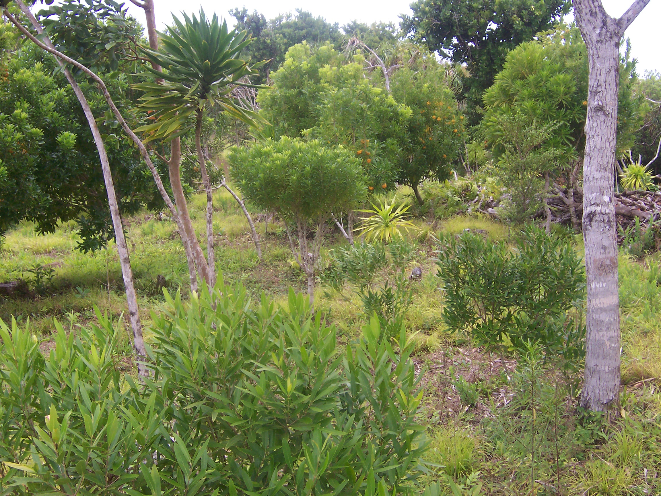 Ecological restoration to an indigenous forest in the Nature Reserve of Grande Montagne on Rodrigues island